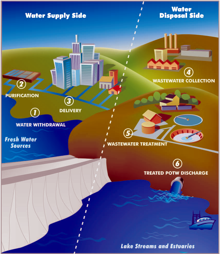 Illustration of a typical urban water cycle in the United States, depicting drinking water purification and municipal sewage treatment systems. (POTW = Publicly Owned Treatment Works; a municipal sewage treatment plant.)